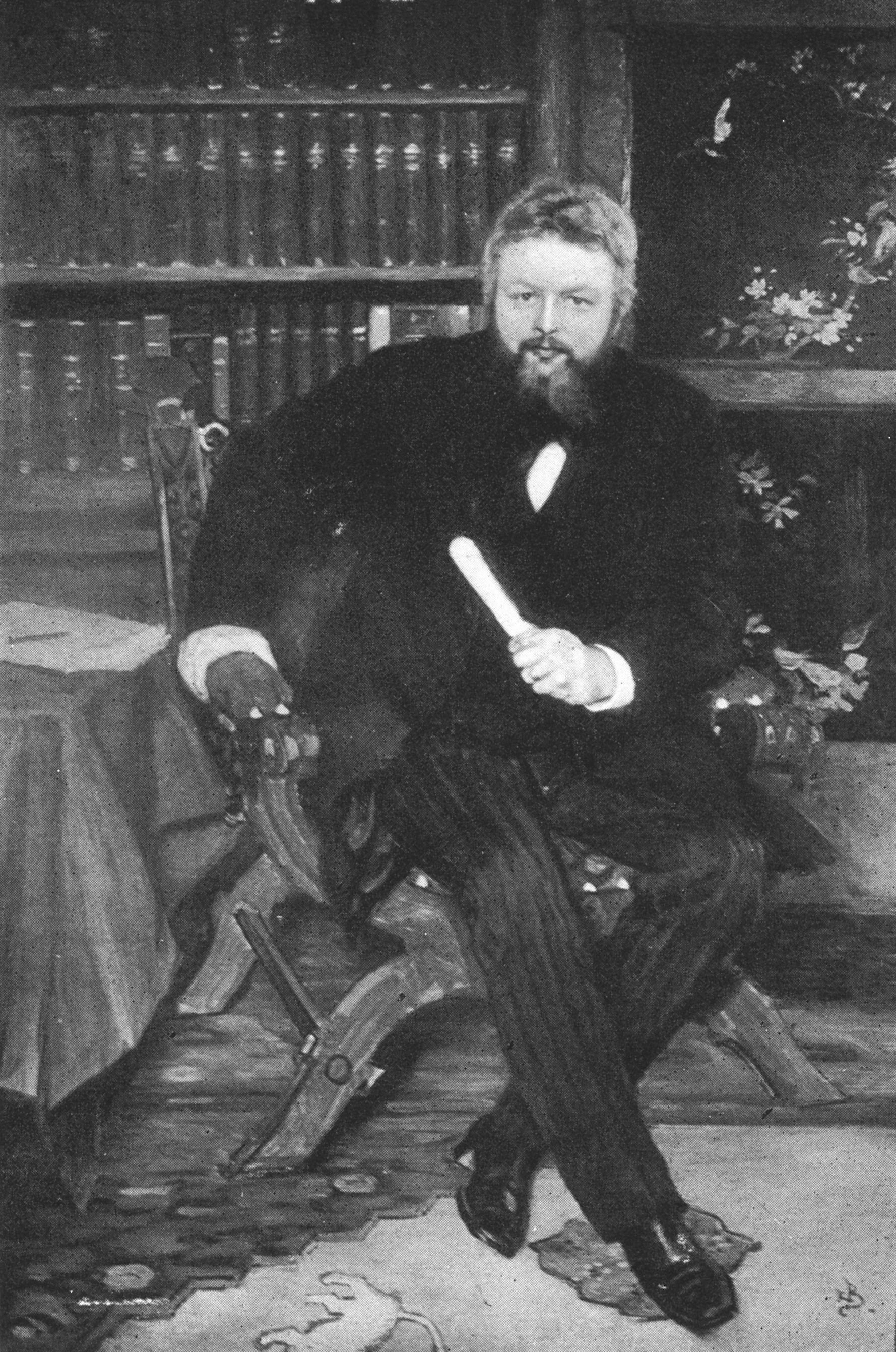 Emil Kleen (1847-1923), Swedish physician and author.